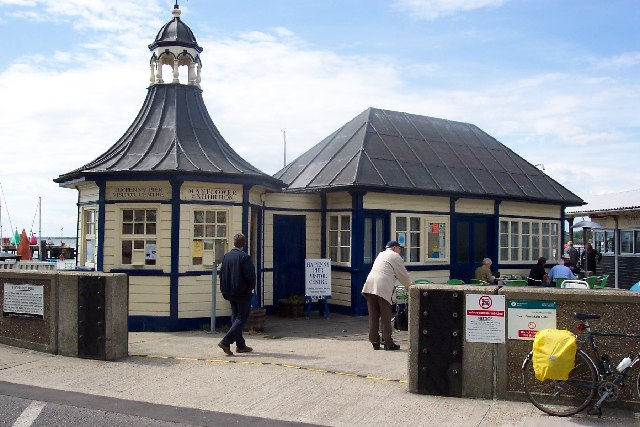 The Halfpenny Pier at Harwich. The name derives from the toll charged to users of the pier.